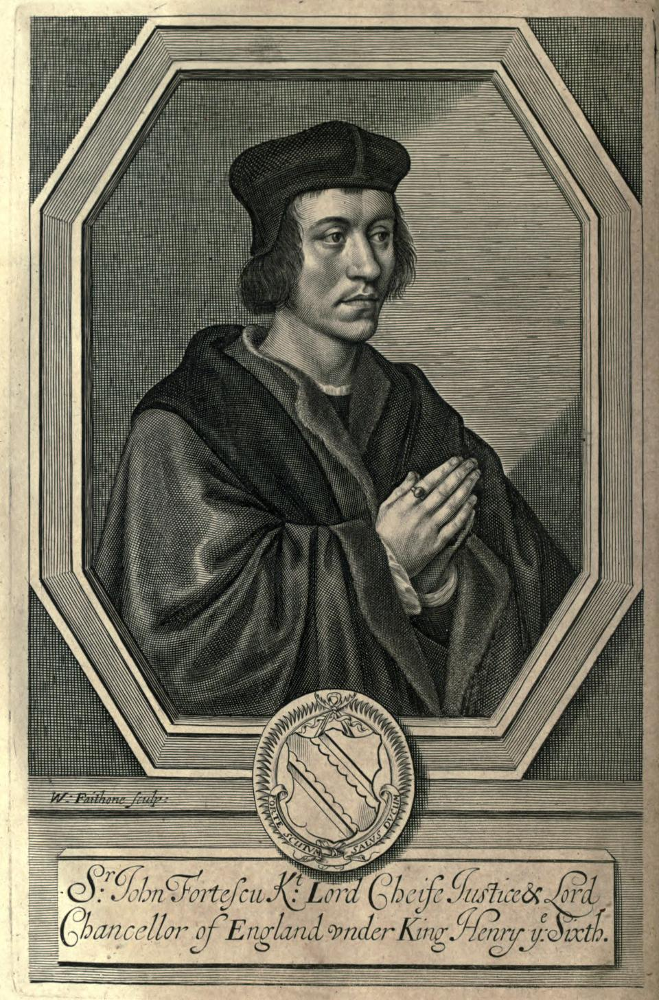 Portrait of Sir John Fortescue (c. 1394 – c. 1480), Lord Chief Justice of England and Wales and the author of De Laudibus Legum Angliæ (Concerning the Praises of the Laws of England, first published posthumously in 1543), an influential treatise on English law.